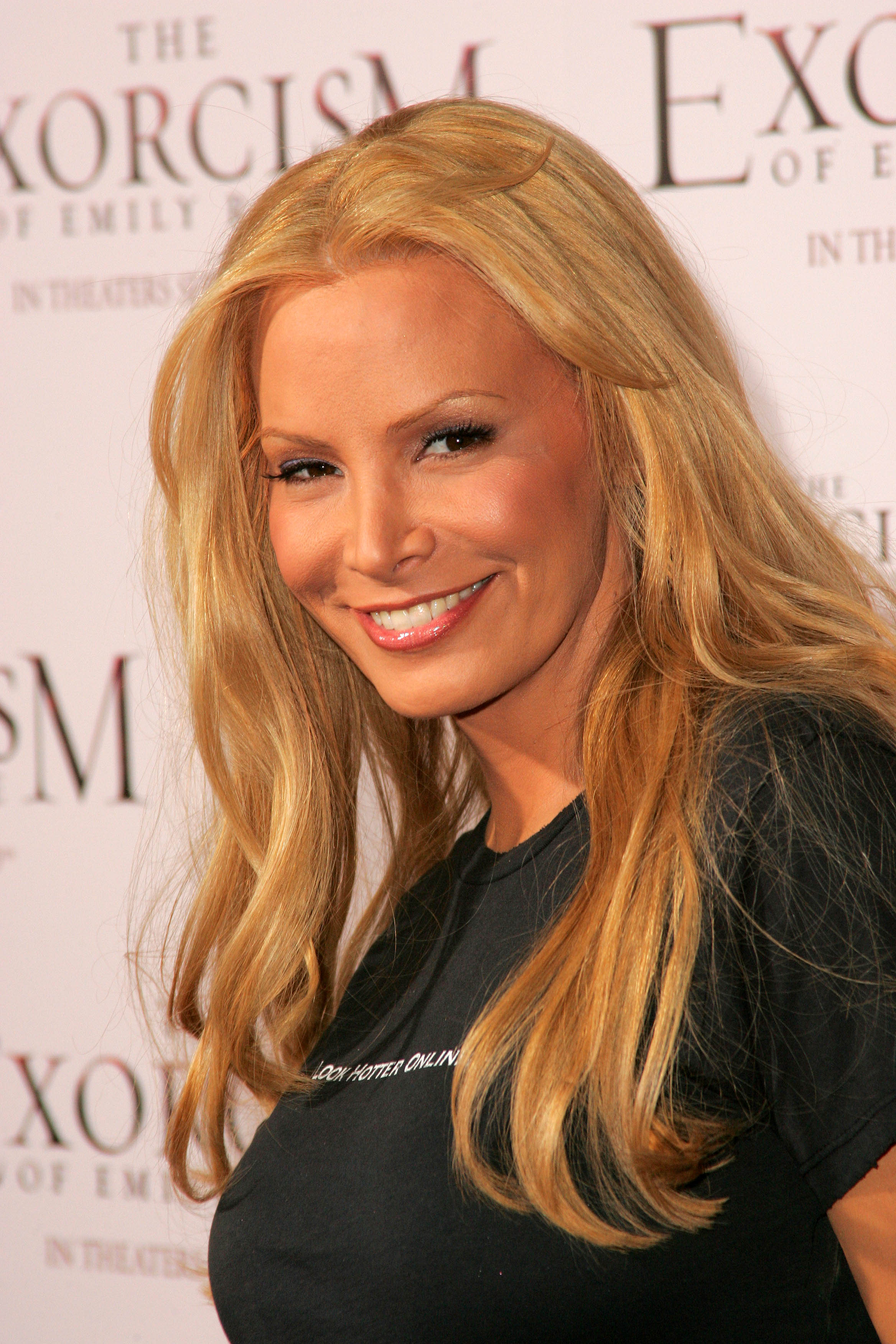 American model and actress Cindy Margolis